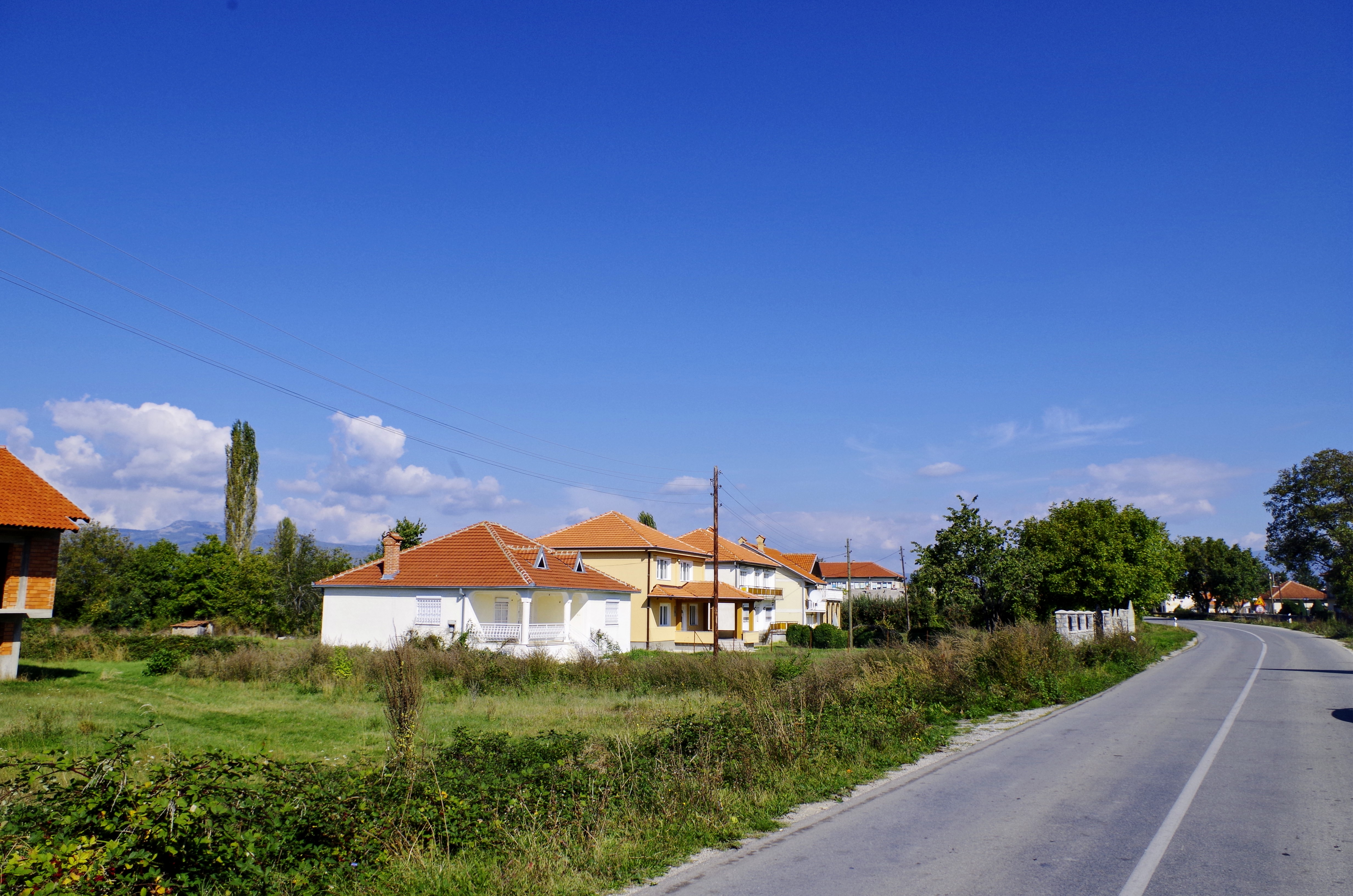 View of the village Drmeni